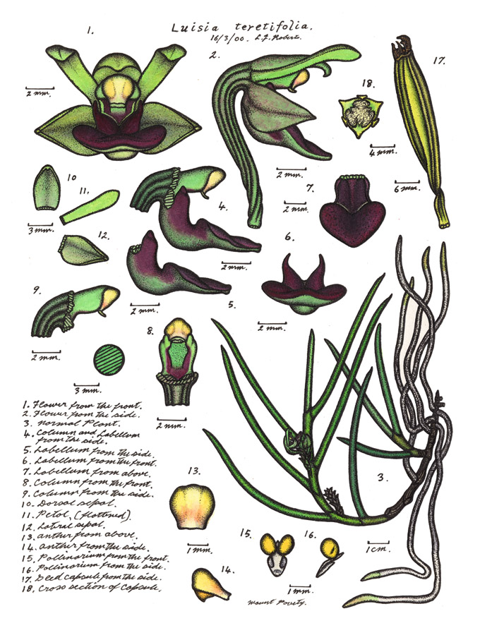 This image is one of a series by Lewis Roberts